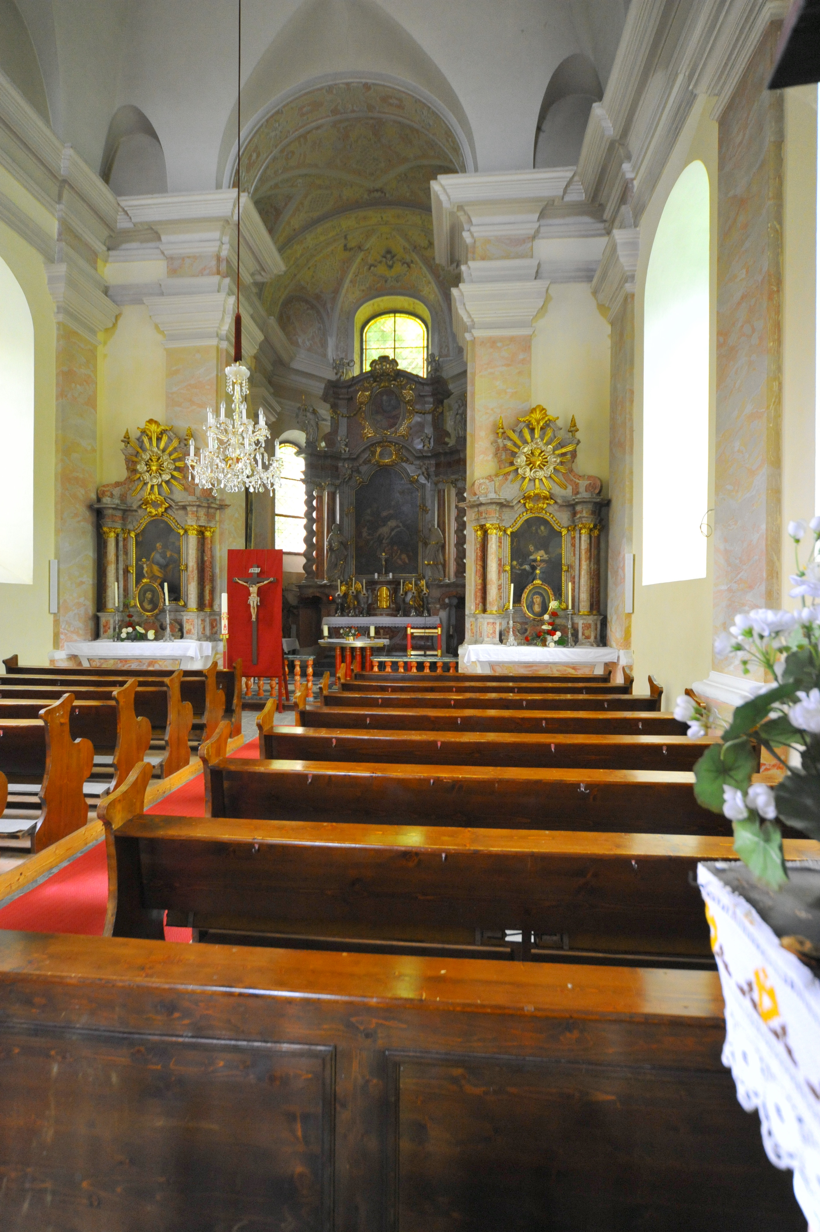 Interior of the subsidiary church "Holy Thadaeus" on the Kreuzbergl in the 8th district "Villacher Vorstadt" of Klagenfurt on the Lake Woerth, Carinthia, Austria